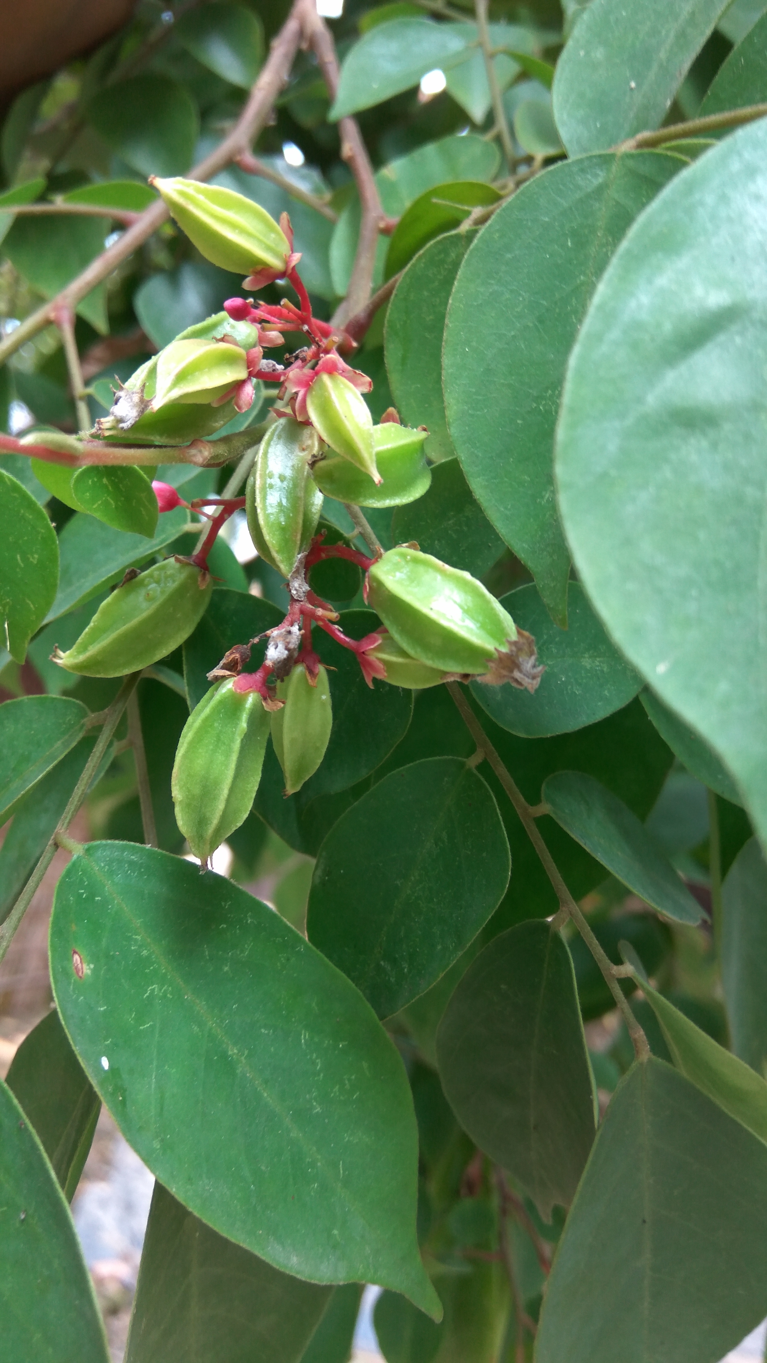 Averrhoa carambola